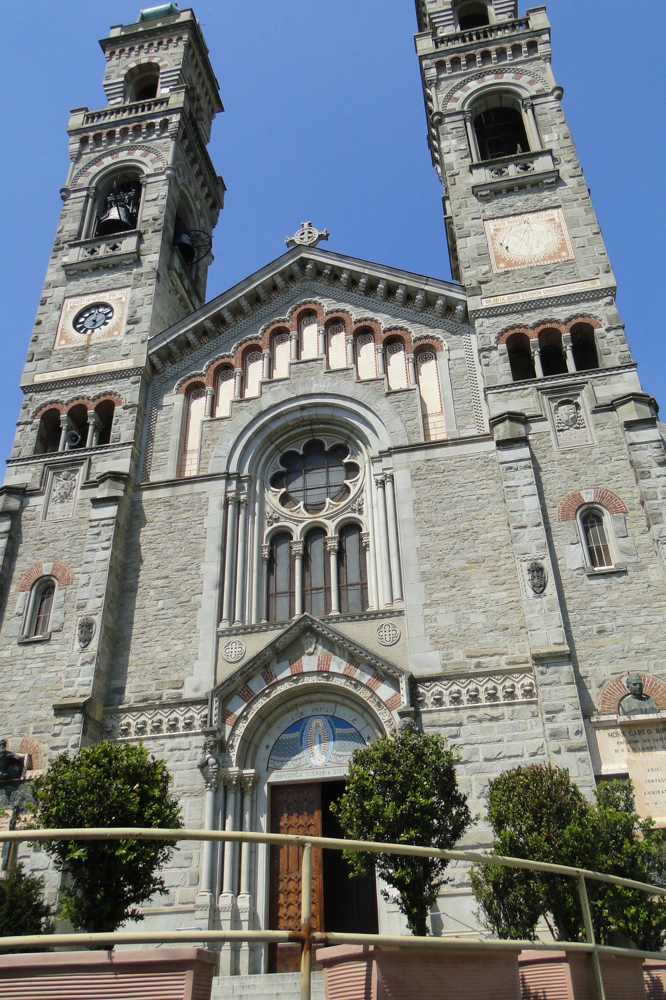 Front of Sanctuary of Selvaggio in Giaveno (Italy)